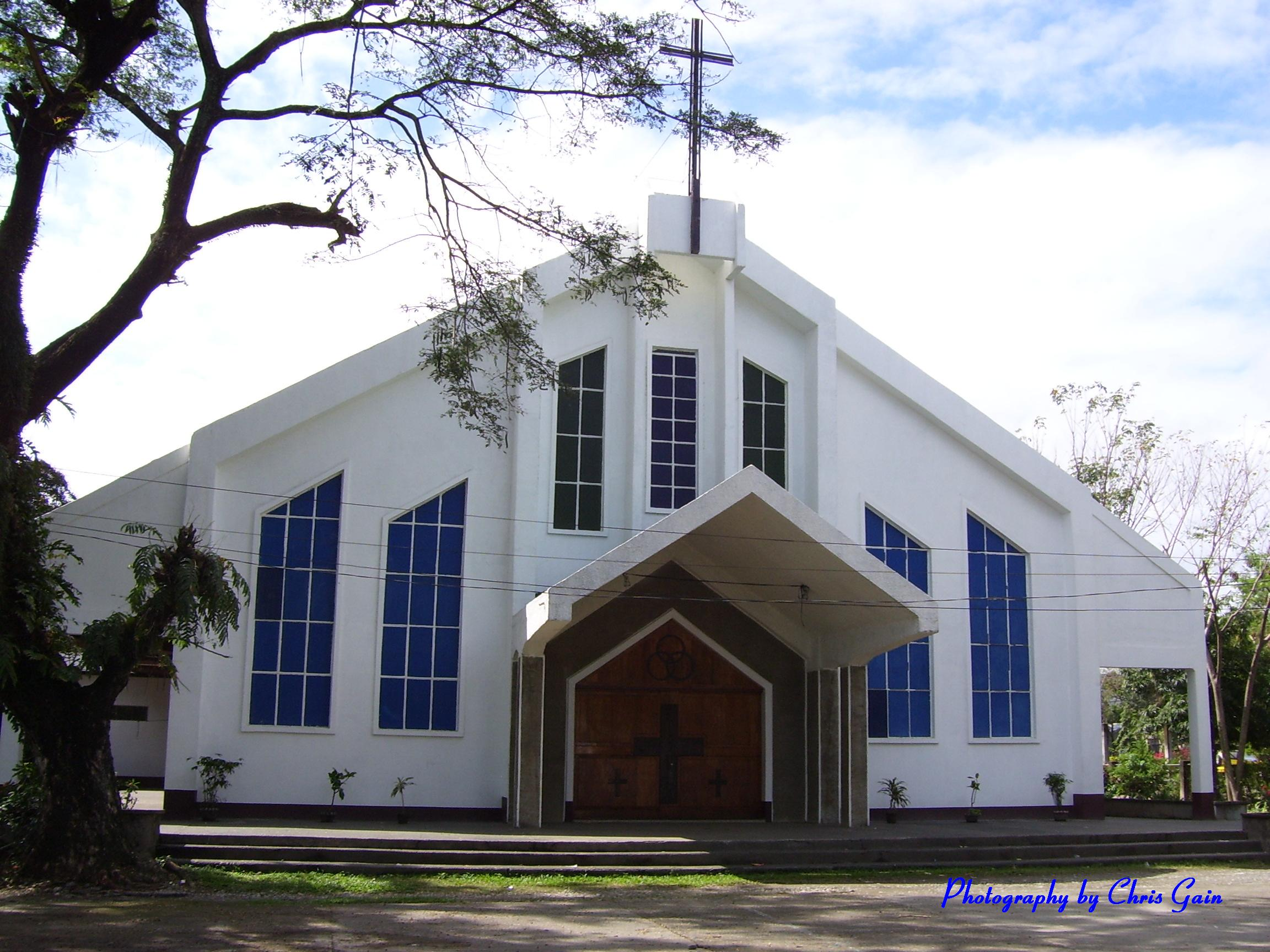 Anglican Cathedral, Tabuk, Philippines, in 2008